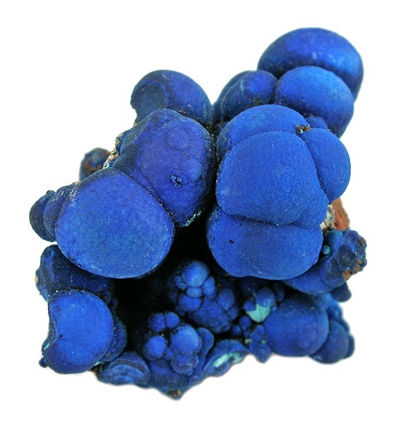 Azurite Locality: Apex Mine (Dixie Mine; Utah-Eastern Mine; Dixie-Apex; Pen), Jarvis Peak, Tutsagubet District, Beaver Dam Mts, Washington County, Utah, USA (Locality at ) Size: 3.7 x 3.3 x 2.6 cm. This rolling hillock of bright azurite is comparable in quality to ANYTHING from Bisbee, I would say. But, it’s from Utah! The old Apex Mine produced into the early 1960s and was known for, rarely, such quality. Charlie Key got these in trade from Al McGuinness in the 1960s.